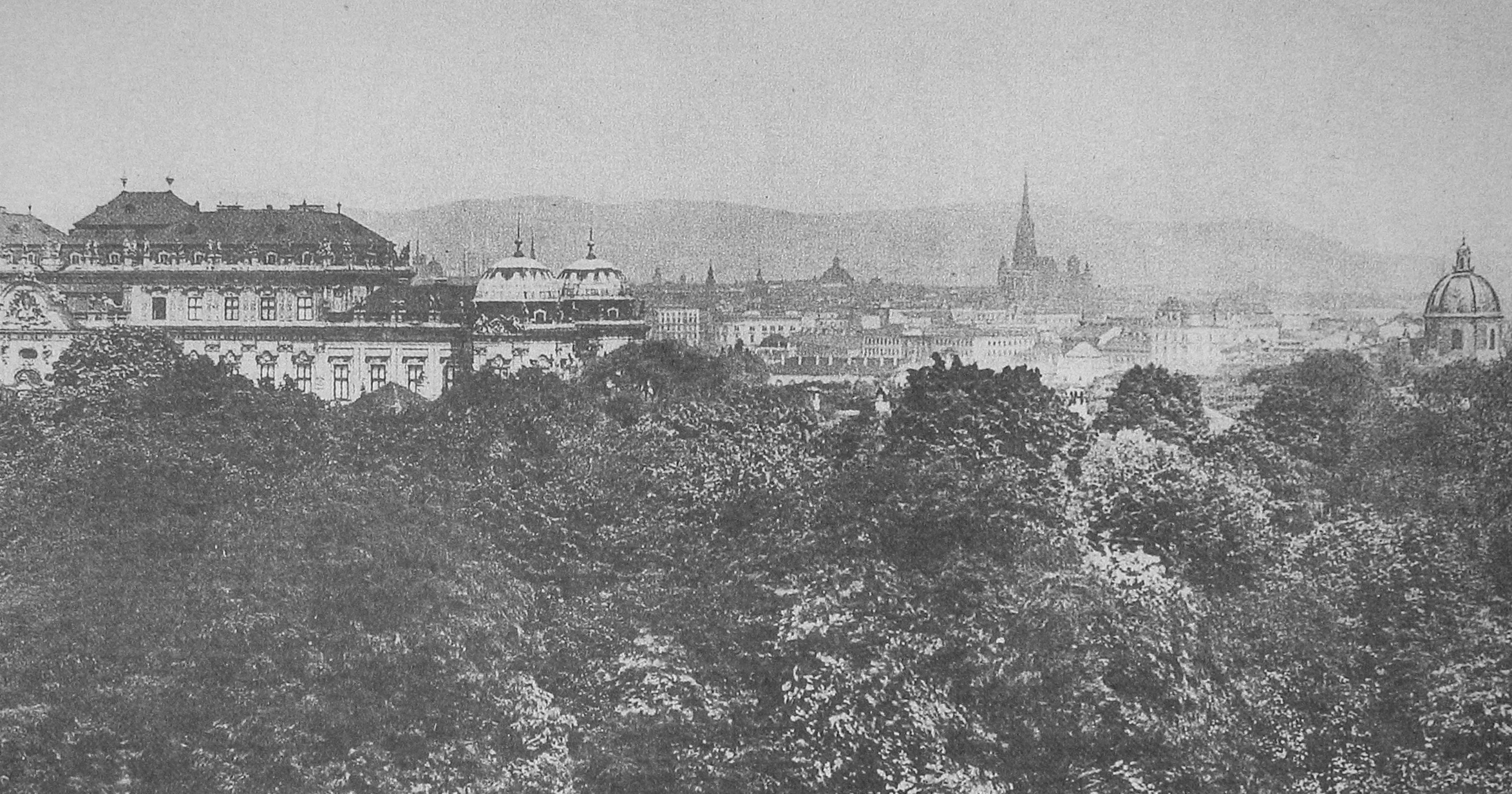 View of Vienna from the Palais Lanckoroński. The image is part of a post-card series that were made specifically for the building and its collection.